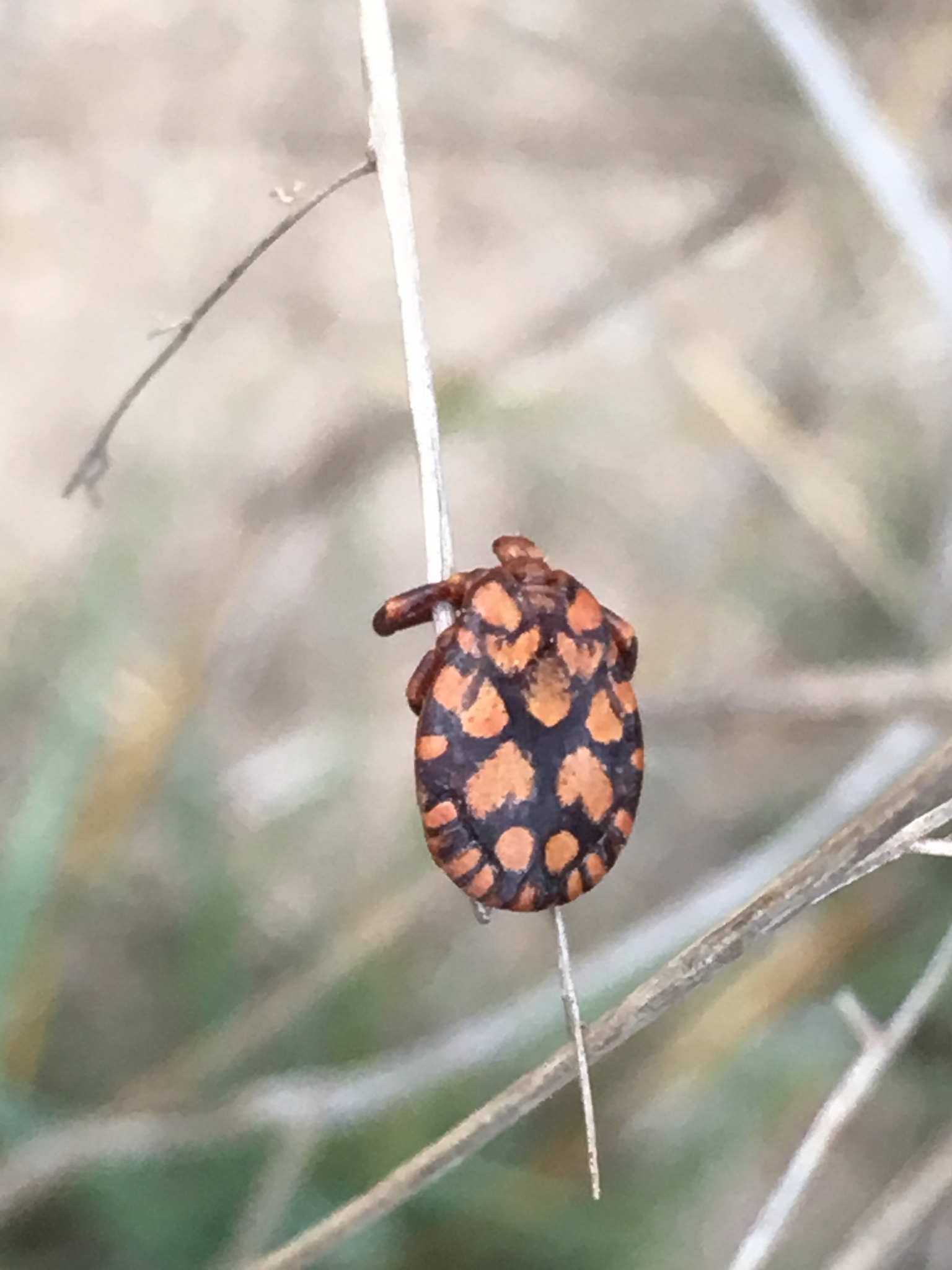 Rhinoceros tick, Dermacentor rhinocerinus